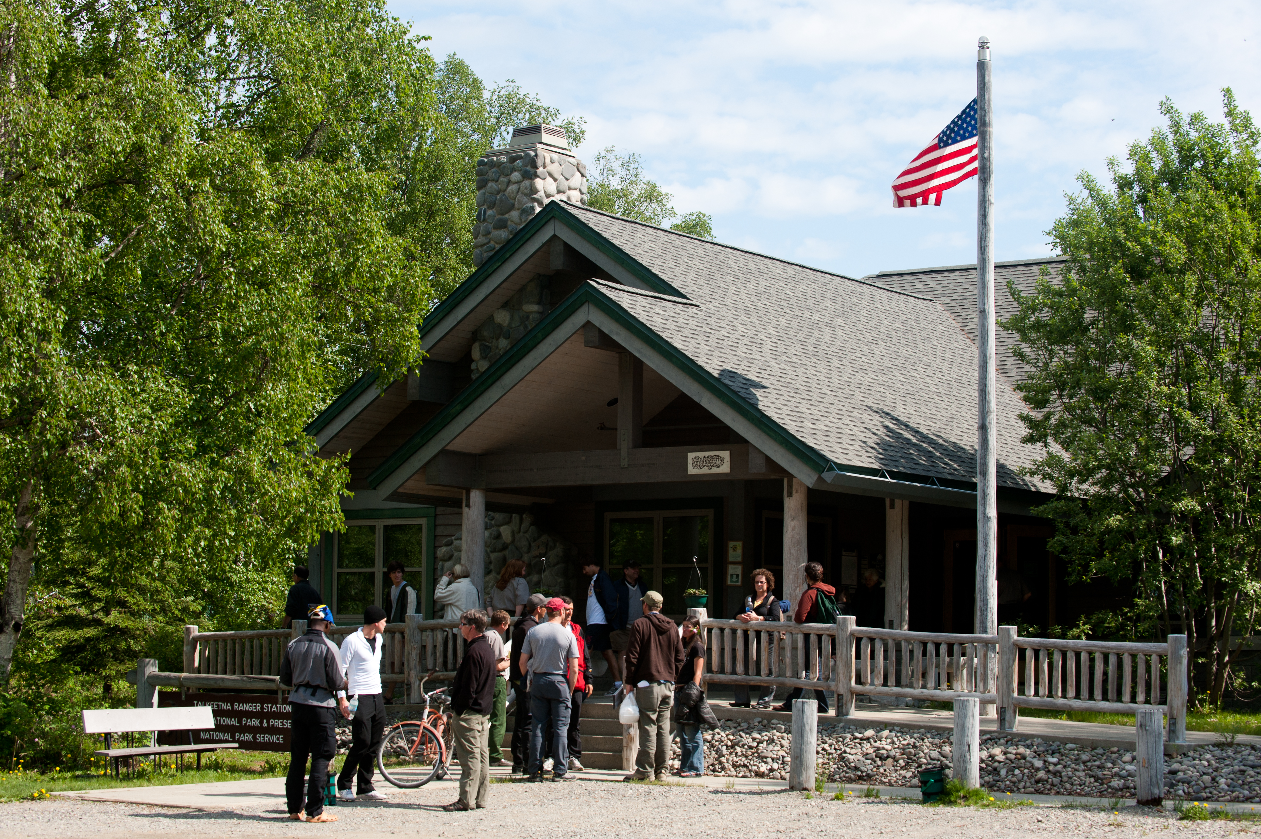 Talkeetna Ranger Station, Denali National Park and Preserve, Alaska USA. Talkeetna is a small town southeast of the park. NPS Photo/Kent Miller